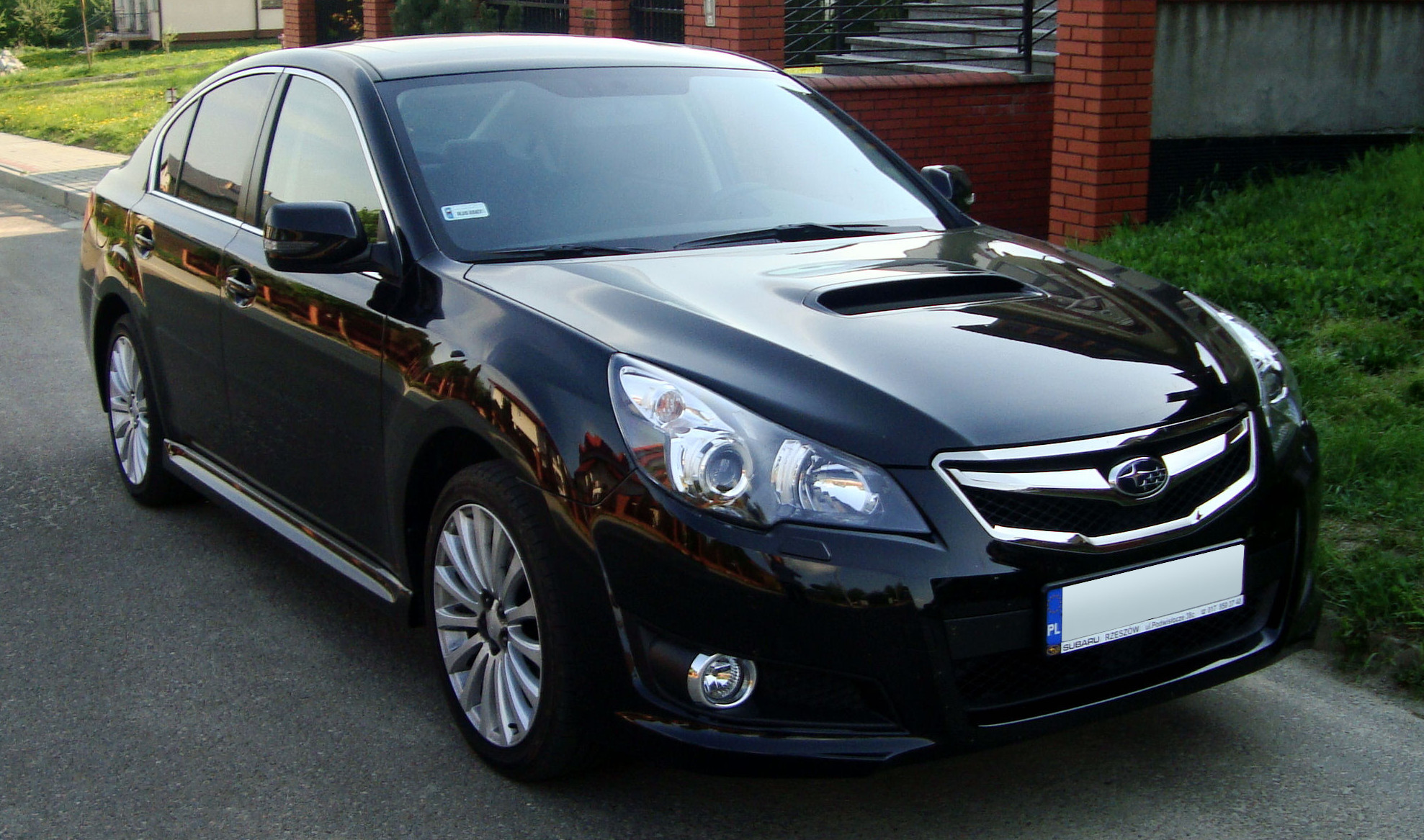 Black Subaru Legacy 2.5GT (BM) seen in Jasło, Poland.